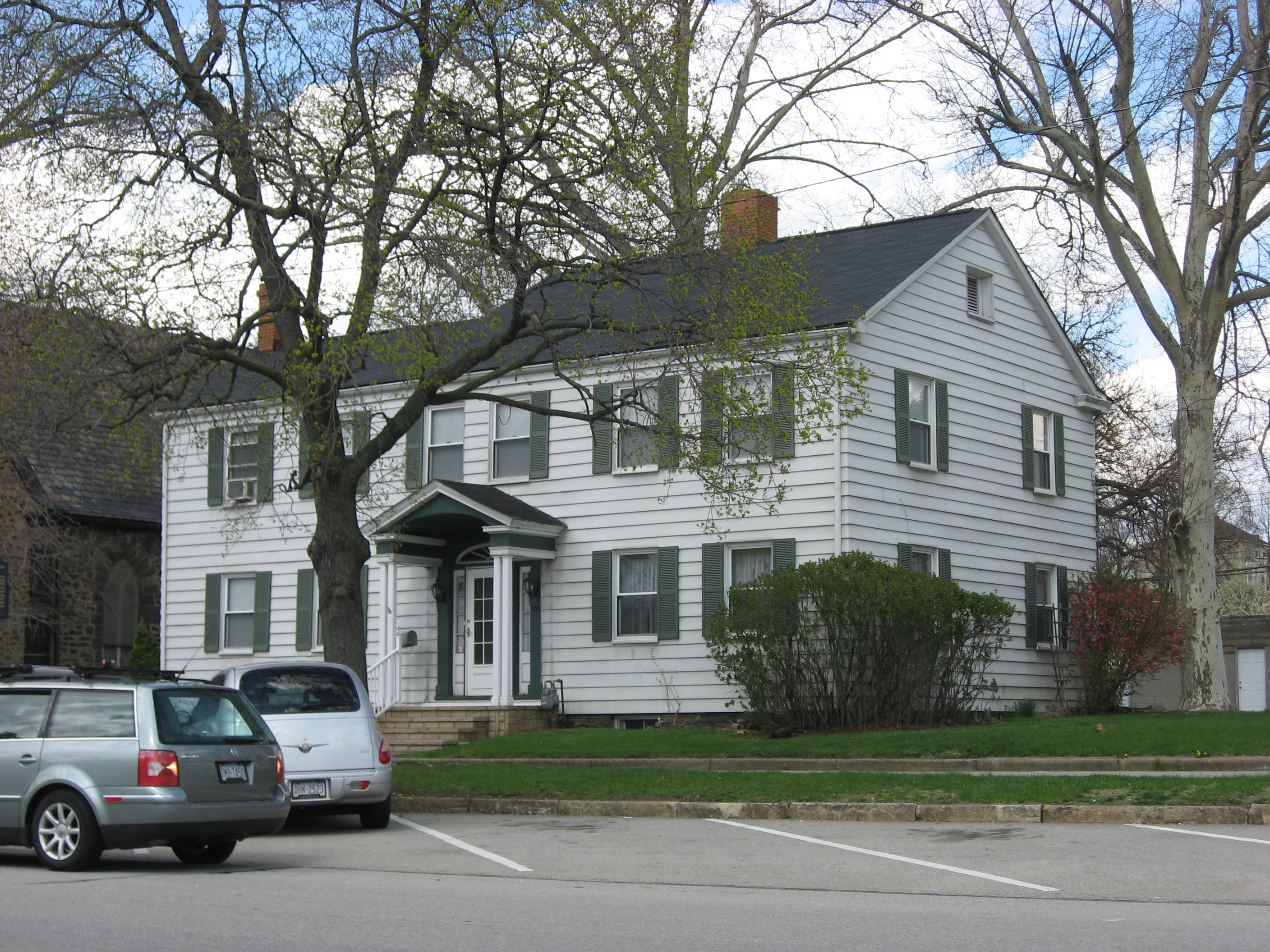 Front and eastern side of the house located at 1221 Third Avenue (Pennsylvania Routes 18 and 65) in New Brighton, Pennsylvania, United States. It was the home of Sara Jane Lippincott.